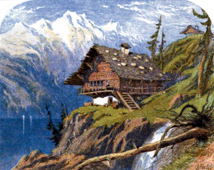 Illustration of a house in the mountains of the Swiss Alps